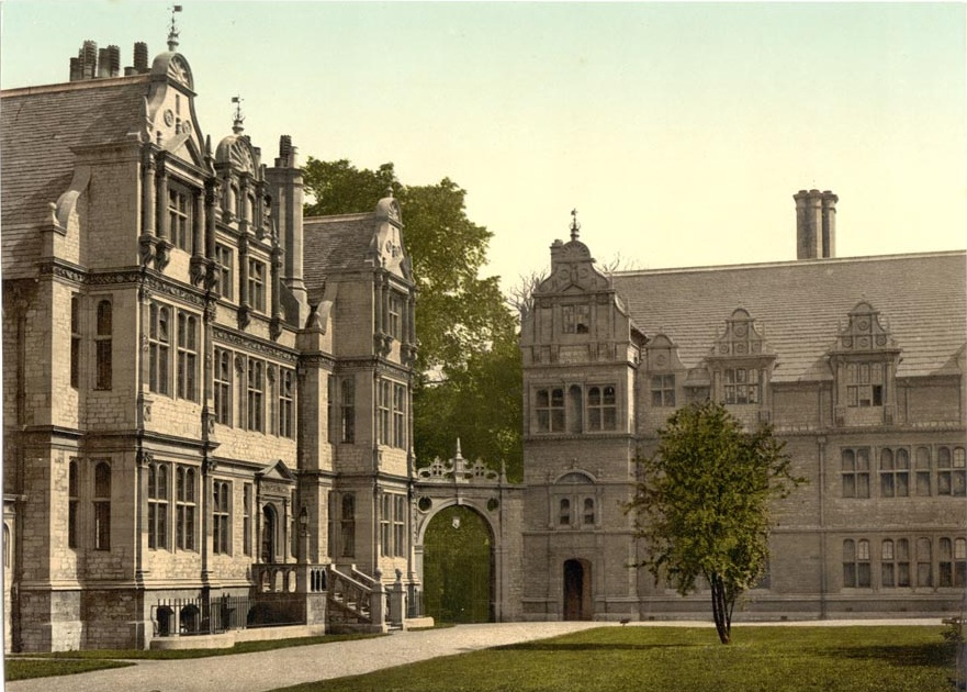 Trinity College Oxford England